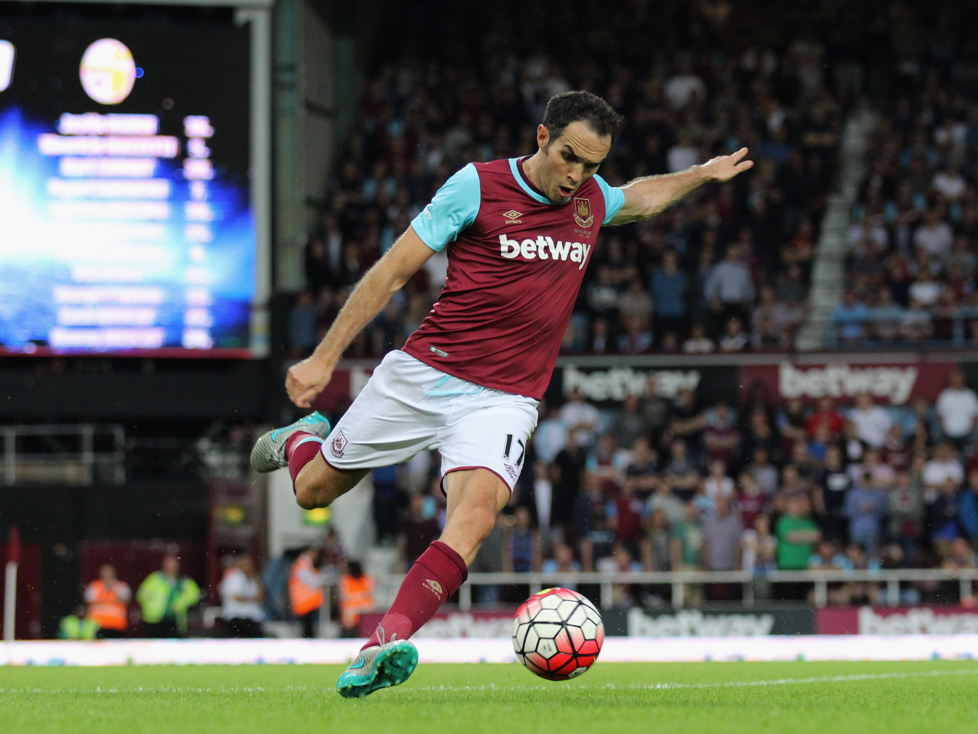 Joey O'brien of West Ham on the ball during the game against Birkirkara.